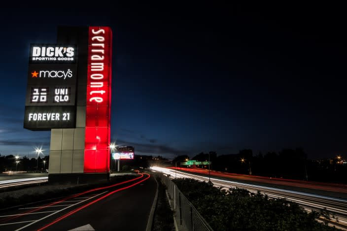 The recently added Serramonte all sign stands along Interstate 280